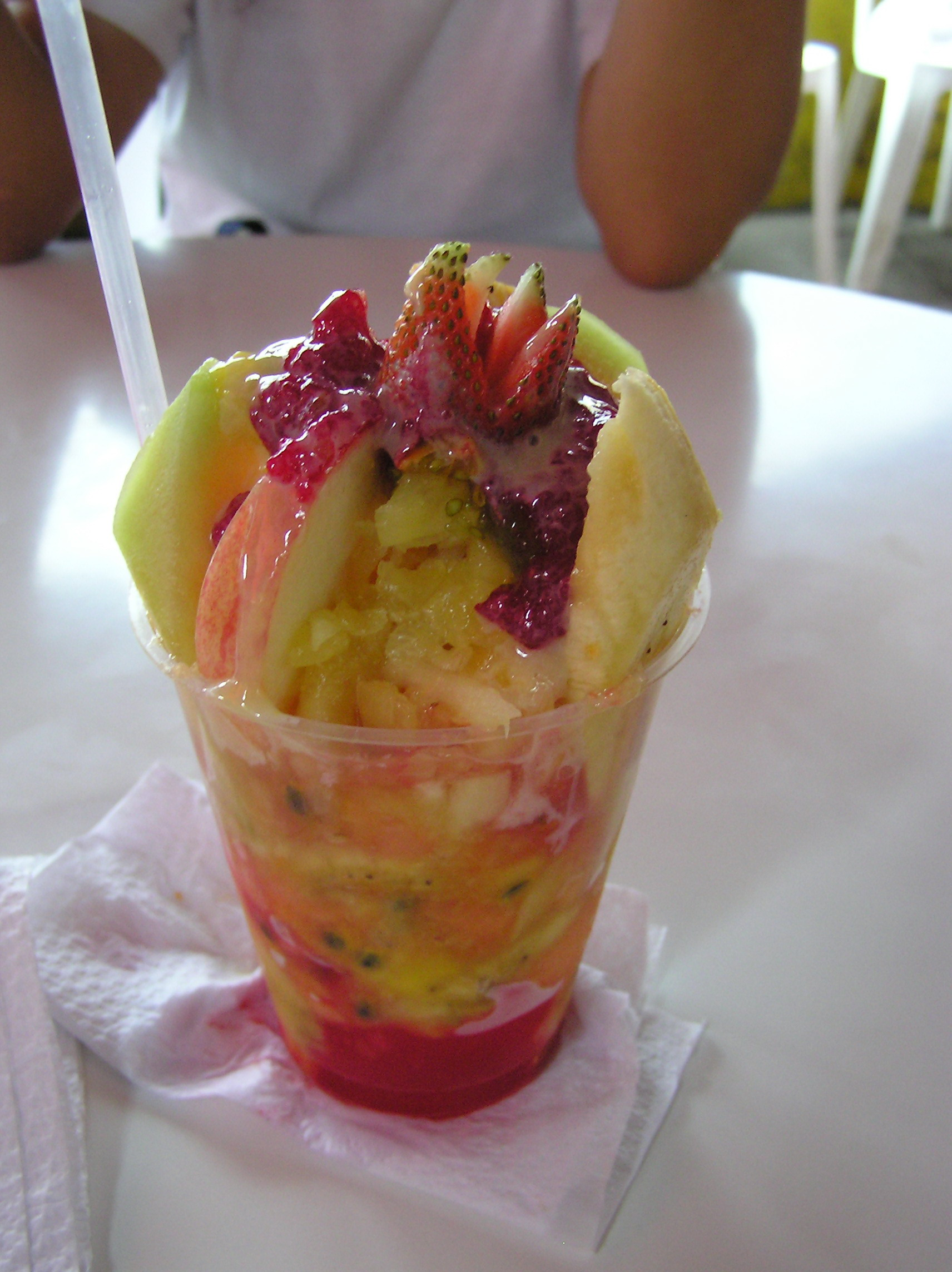 Cholado, rapado de hielo y frutas en Jamundí, Valle del Cauca, Colombia